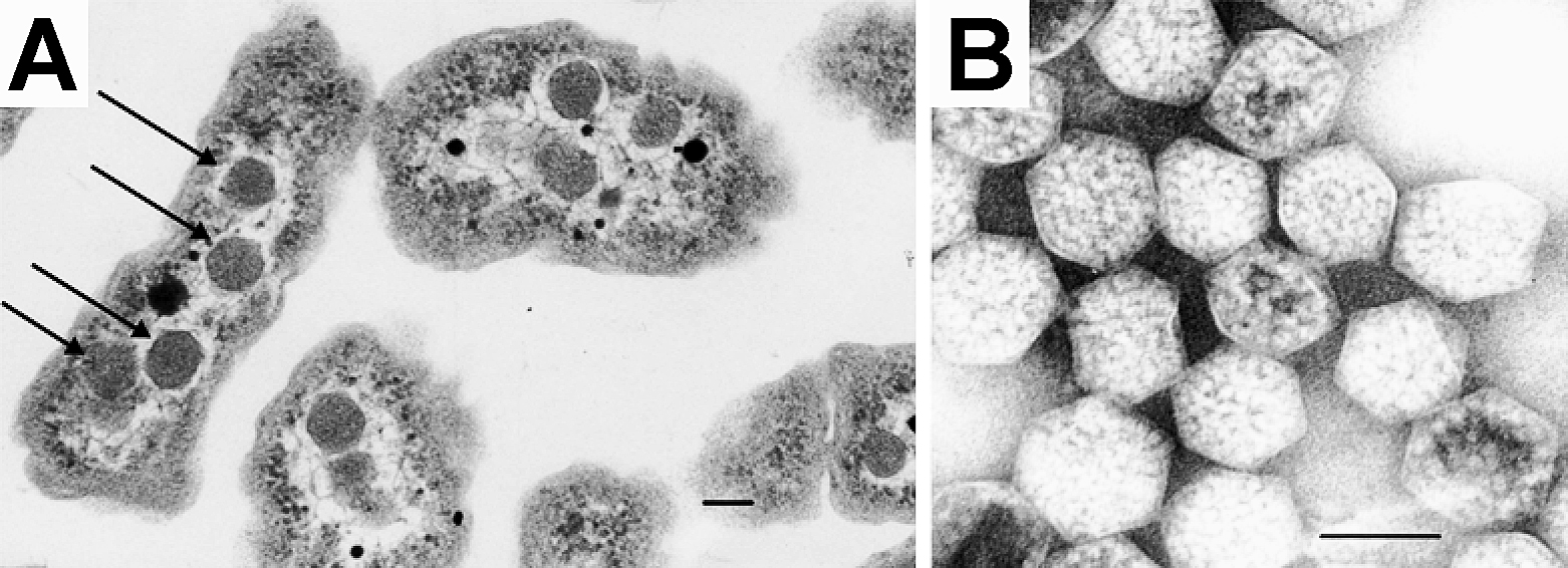 (A) A thin-section electron micrograph of H. neapolitanus cells with carboxysomes inside. In one of the cells shown, arrows highlight the visible carboxysomes. (B) A negatively stained image of intact carboxysomes isolated from H. neapolitanus. The features visualized arise from the distribution of stain around proteins forming the shell as well as around the RuBisCO molecules that fill the carboxysome interior. Scale bars indicate 100 nm.